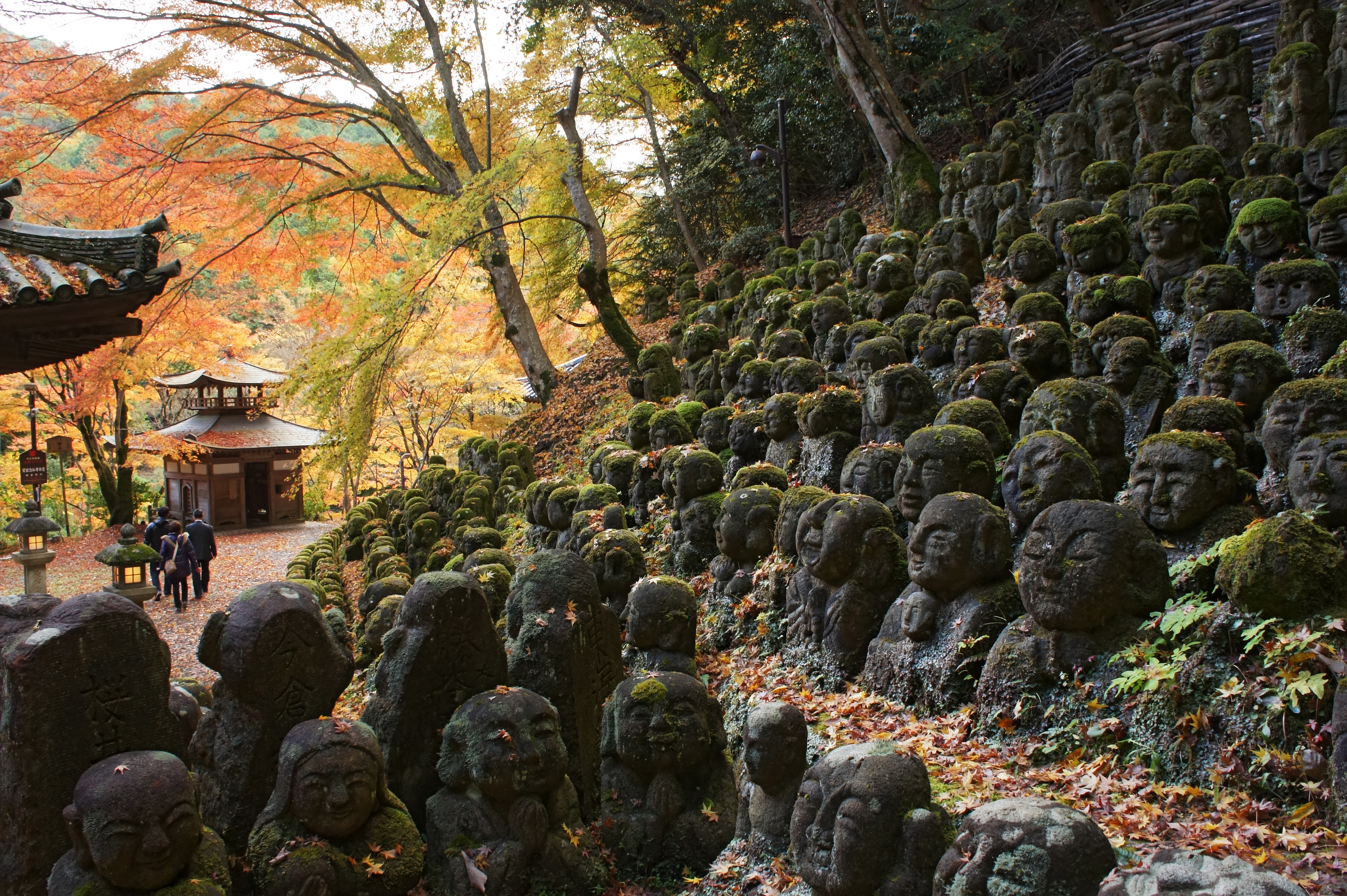 Otagi Nenbutsu-ji in Sagano, Kyoto, Kyoto prefecture, Japan